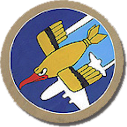 Emblem of the USAAF 91st Bombardment Group